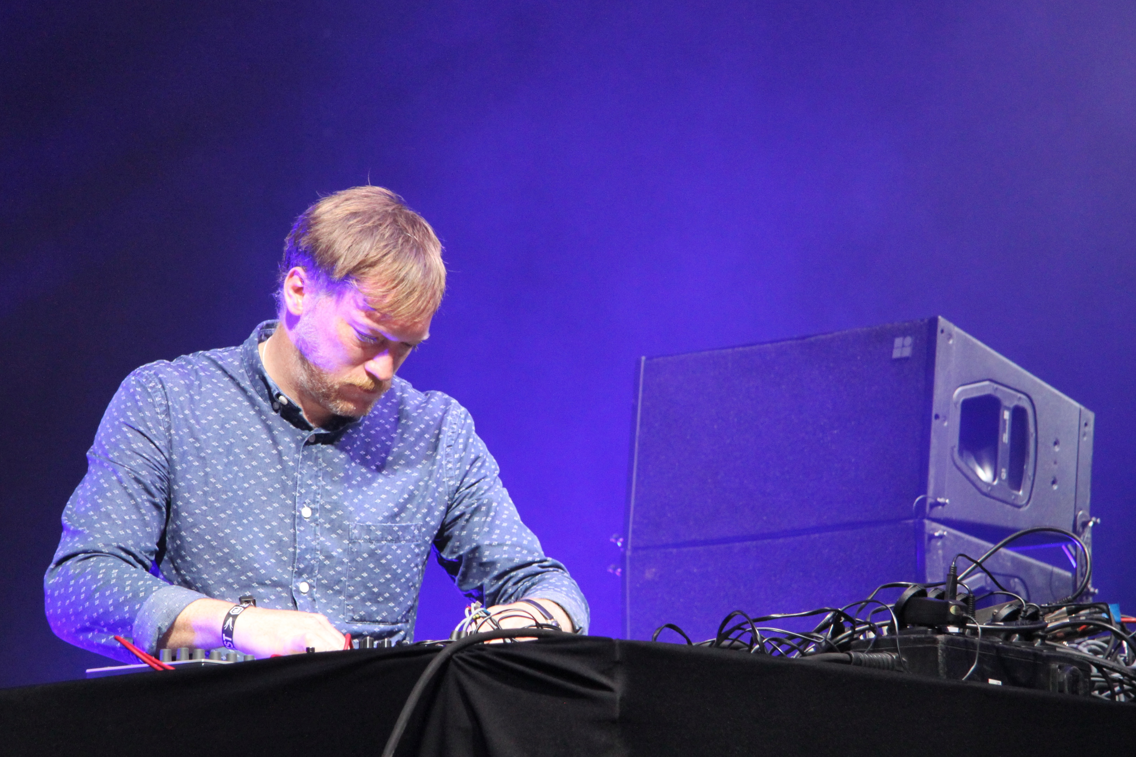 The Field during Tauron Nowa Muzyka 2014 festival.